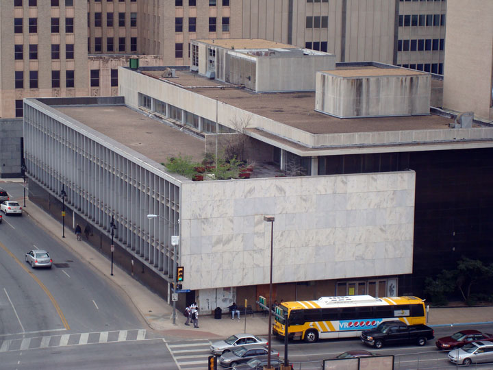 Front of old Dallas Public Library building in Dallas, Texas